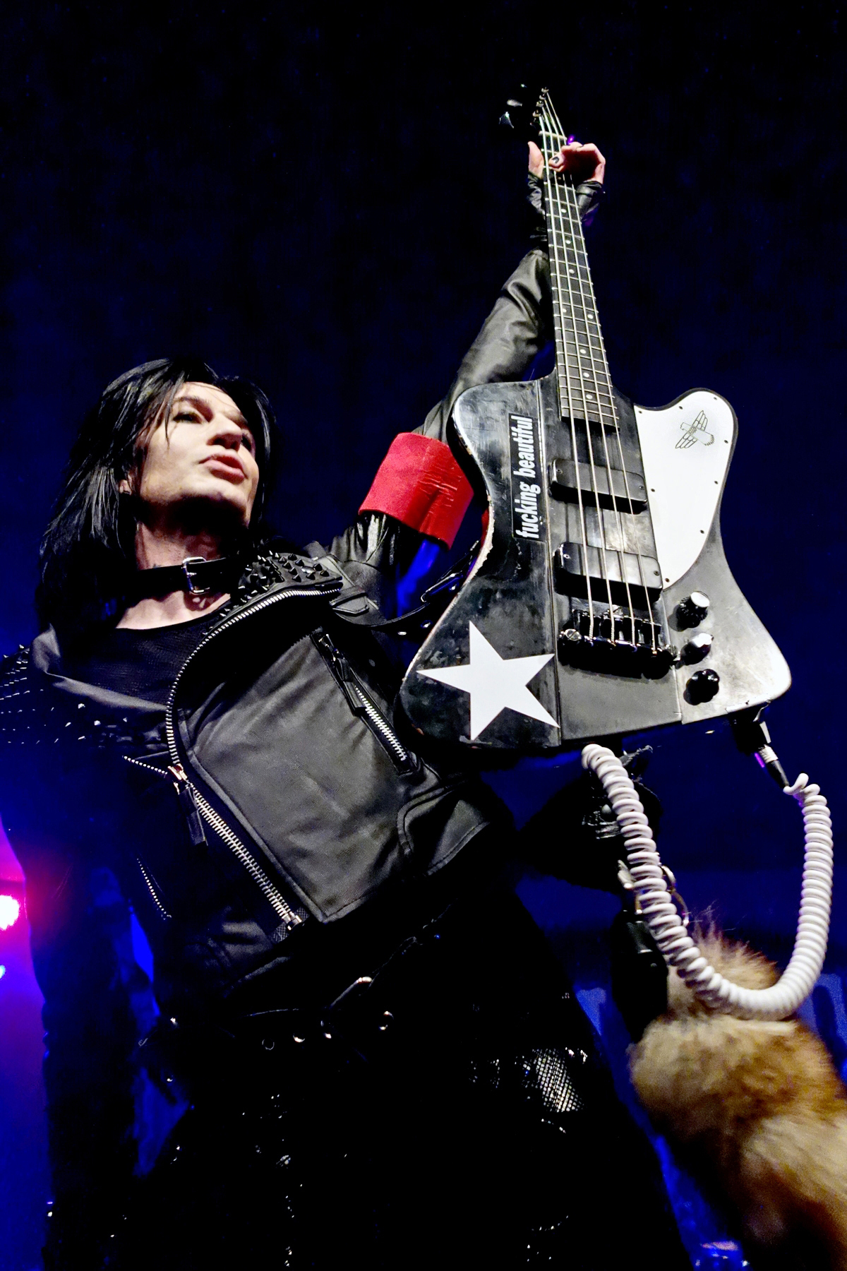 Rock guitarist Kenny Kweens performing